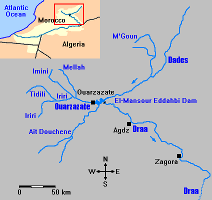 The Draa River is a river in the south of Morocco and Algeria.